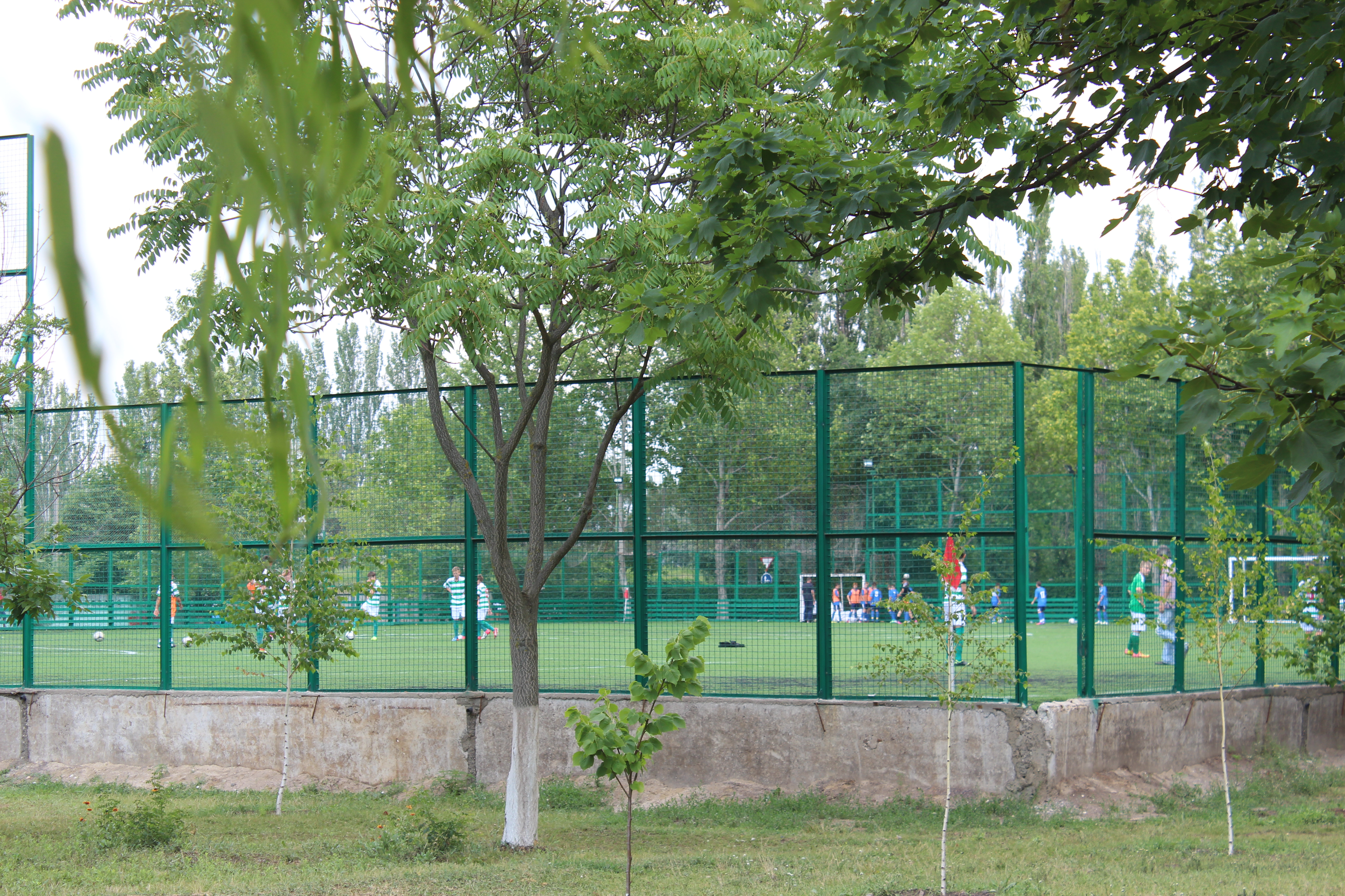 Zorya Stadium. Mykolaiv, Ukraine.